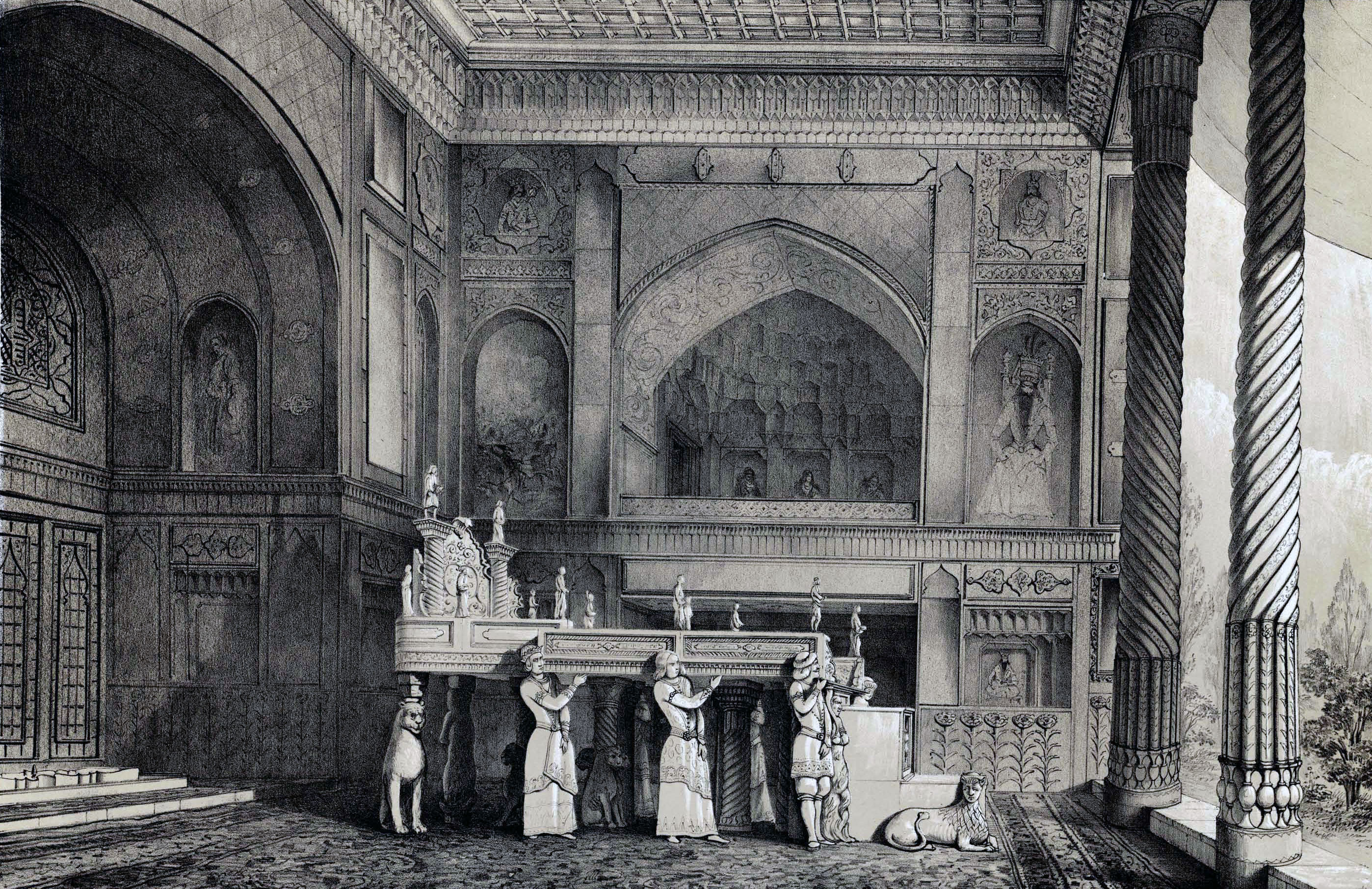 Inside the throne room , Tehran